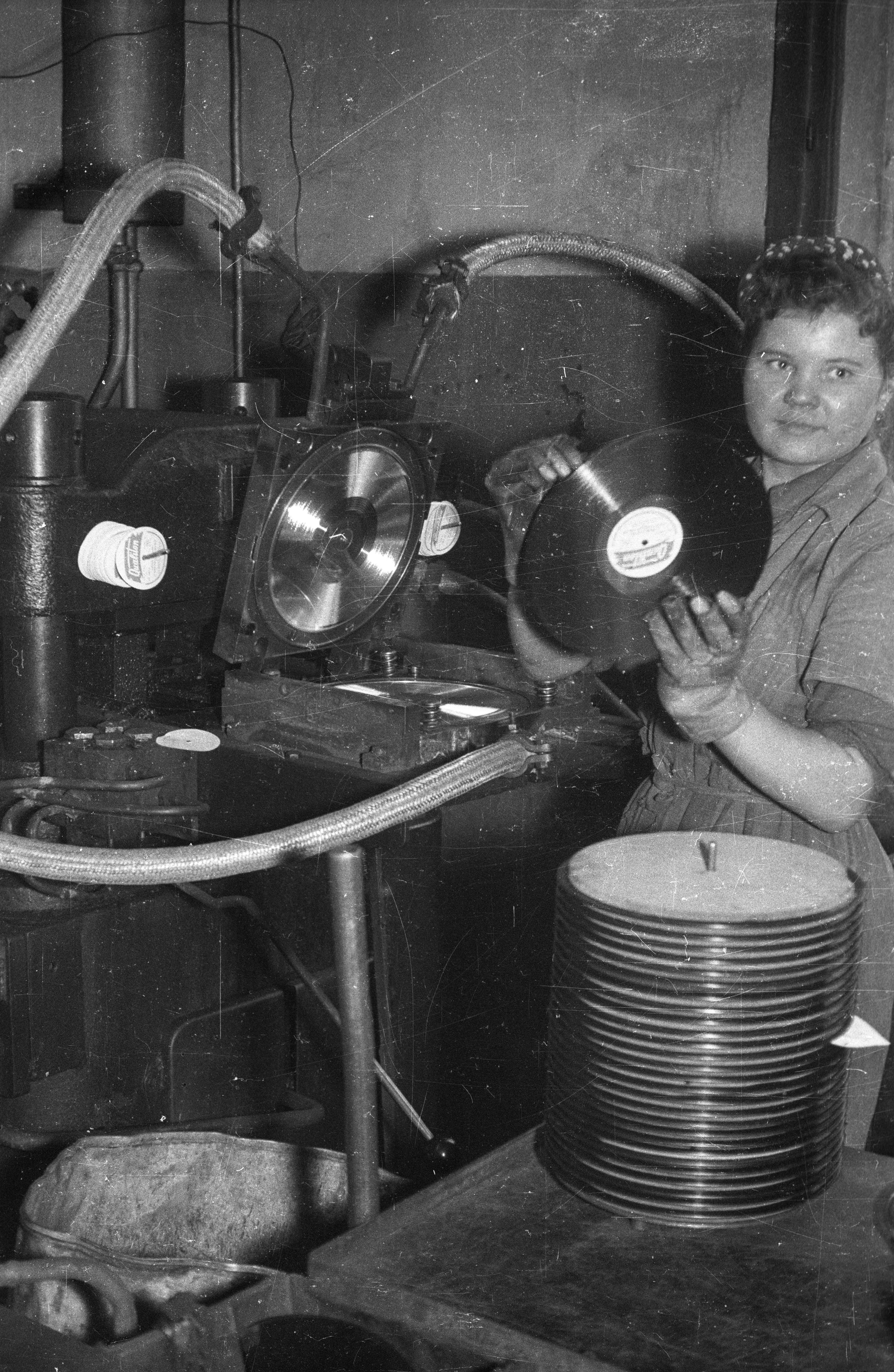 LP records press (Budapest Cable and Plastic Factory)